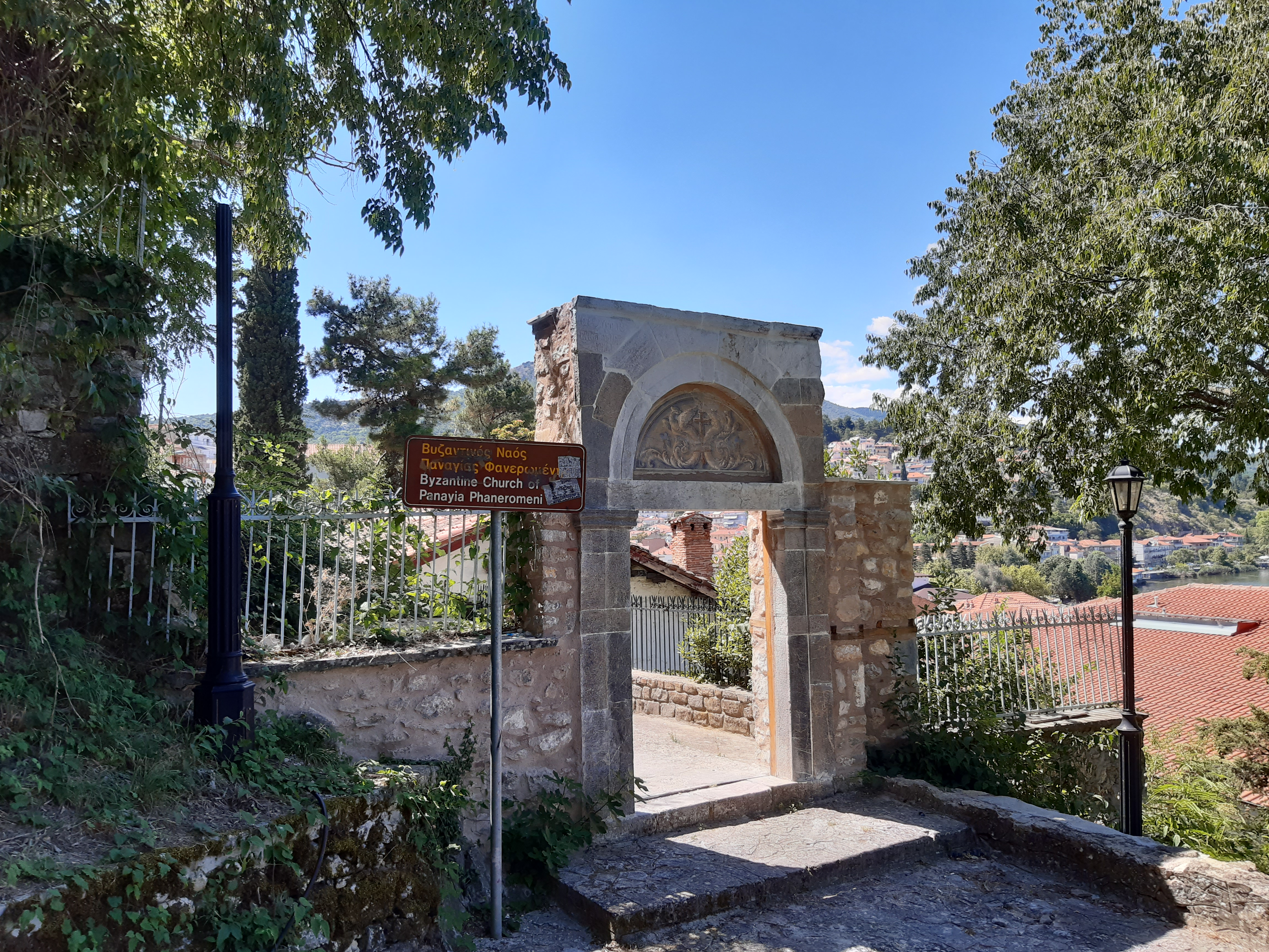 Saint Mary Phaneromeni Church, Kastoria